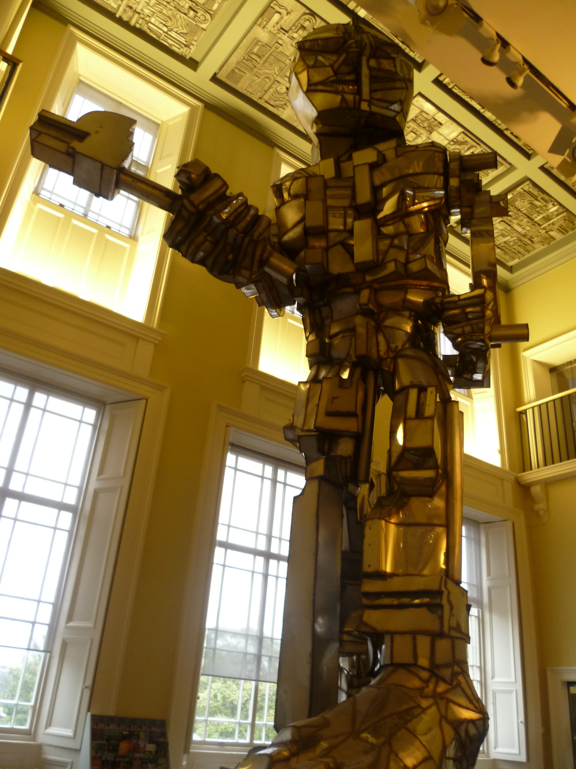 A 7.3 metres high steel figure depicting Vulcan, the Roman god of fire, archetypal blacksmith and progenitor of metal sculpture. He fills the gallery space from the ground floor to the ceiling of the first floor. Half-man, half-machine, Vulcan embodies the industrial age.